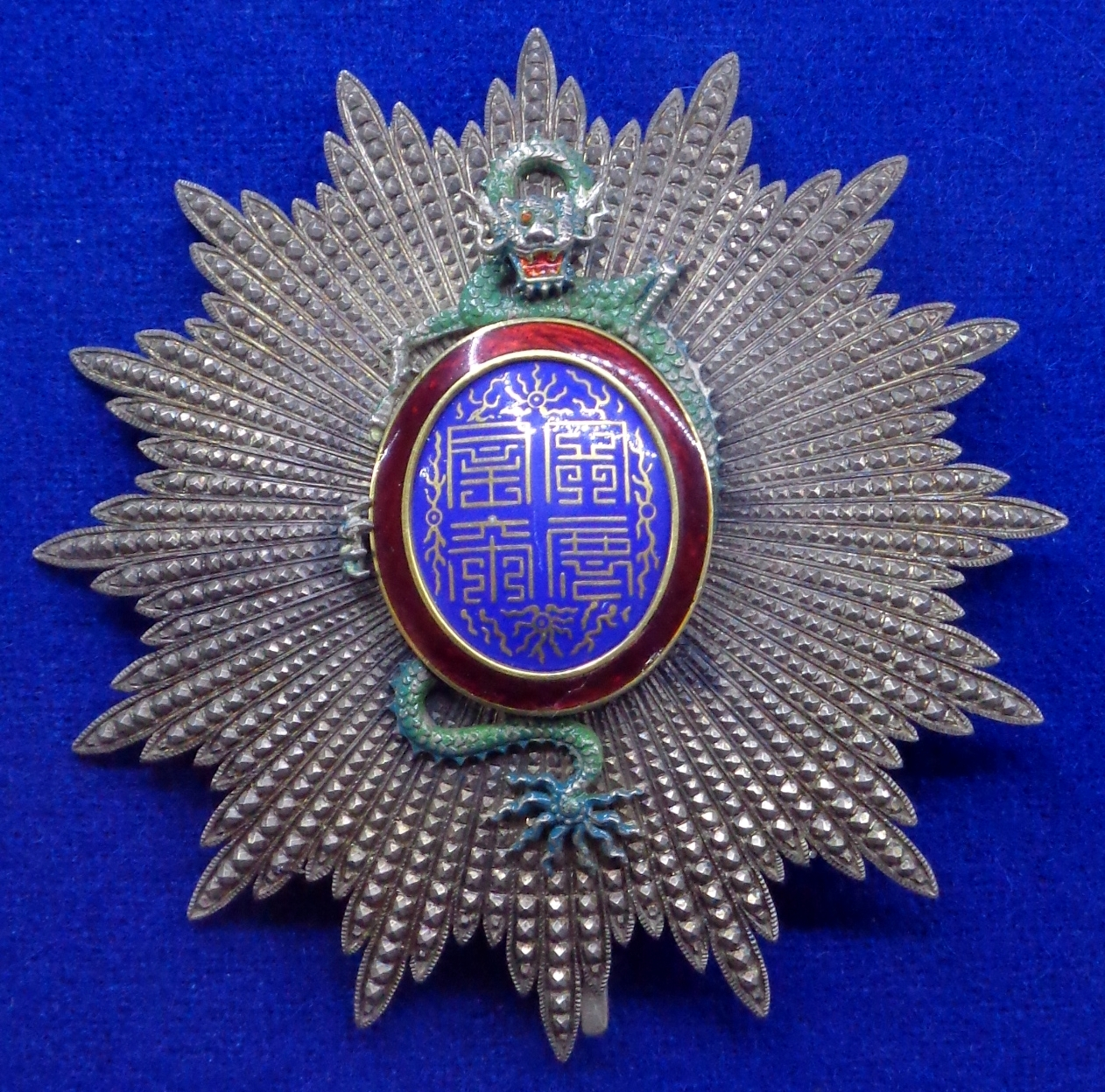 Order of the Dragon of Annam, star of Grand Cross, 1896-1946. Empire of Annam, France. The exhibition of the Tallinn Museum of Orders of Knighthood, Estonia.